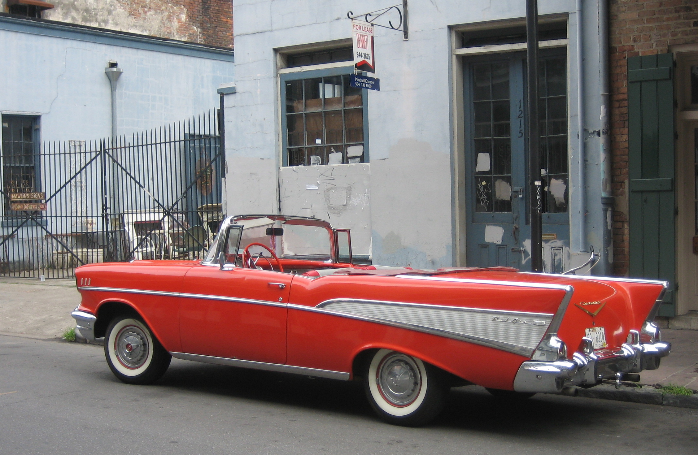 1957 Chevrolet Bel Air convertible on lower Decatur Street in the French Quarter of New Orleans